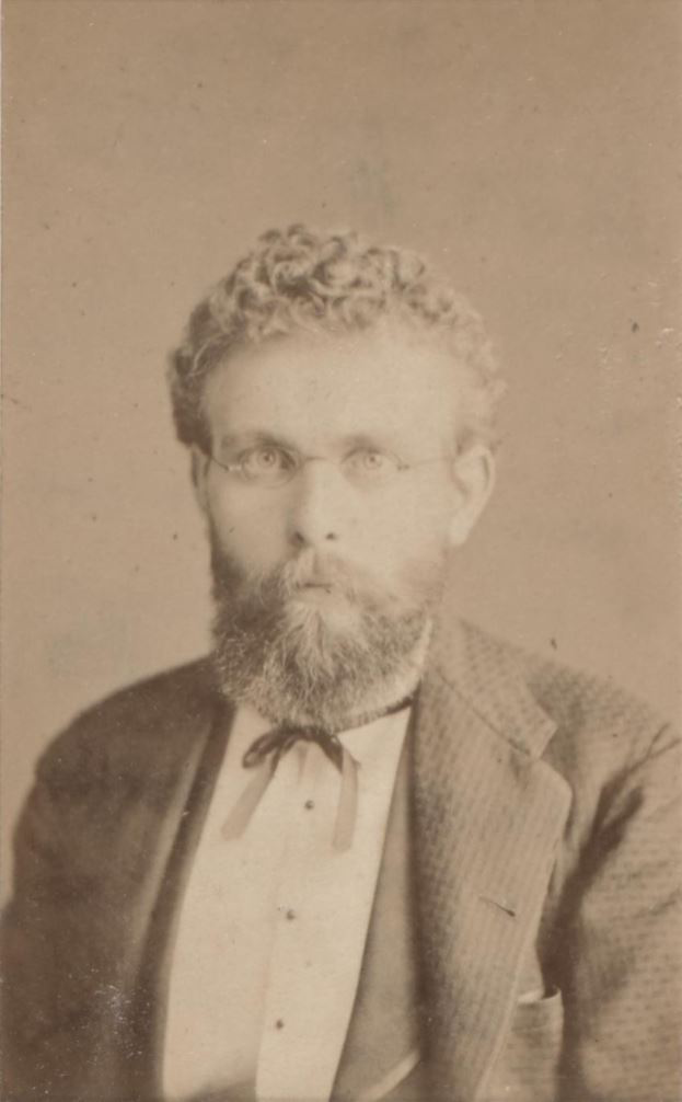 Plate 09 Photograph album of German and Austrian scientists. Franz Eilh. Schulze, Graz; Oscar Schmidt, Strassburg (Strasbourg); Dr. Otto Zacharias, Dessau; Bartholomaeus von Carneri, Wildhaus/Steiermark (Styria); Dr. Fr. Ludwig, Greiz; Stephan Milow, Graz; Conrad Deubler, Goisern/Steiermark (Styria); Dr. Wilhelm Wurm, Bad Teinach; Emerich Du Mont, Graz.